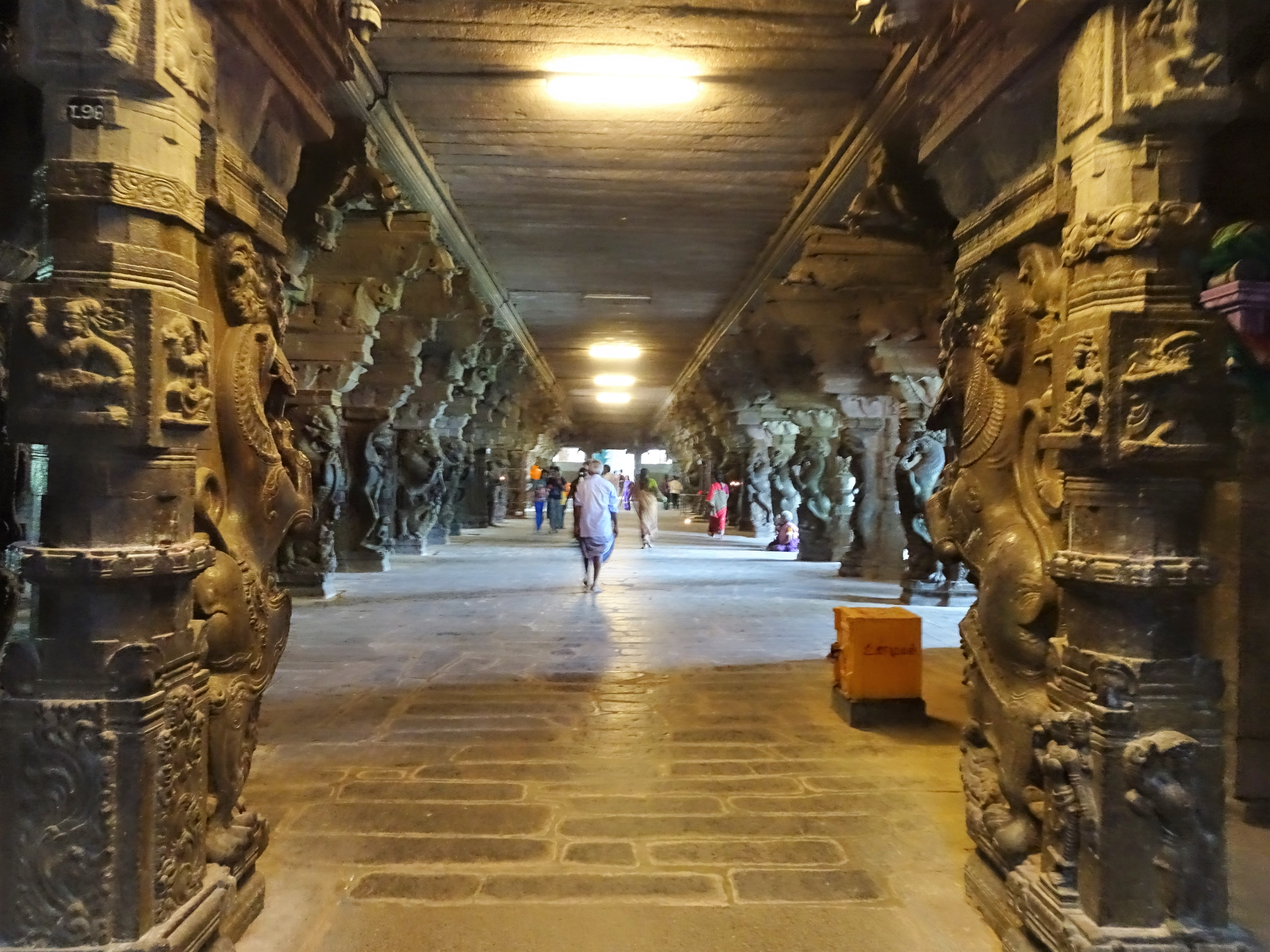 The grand corridor connecting the two temples